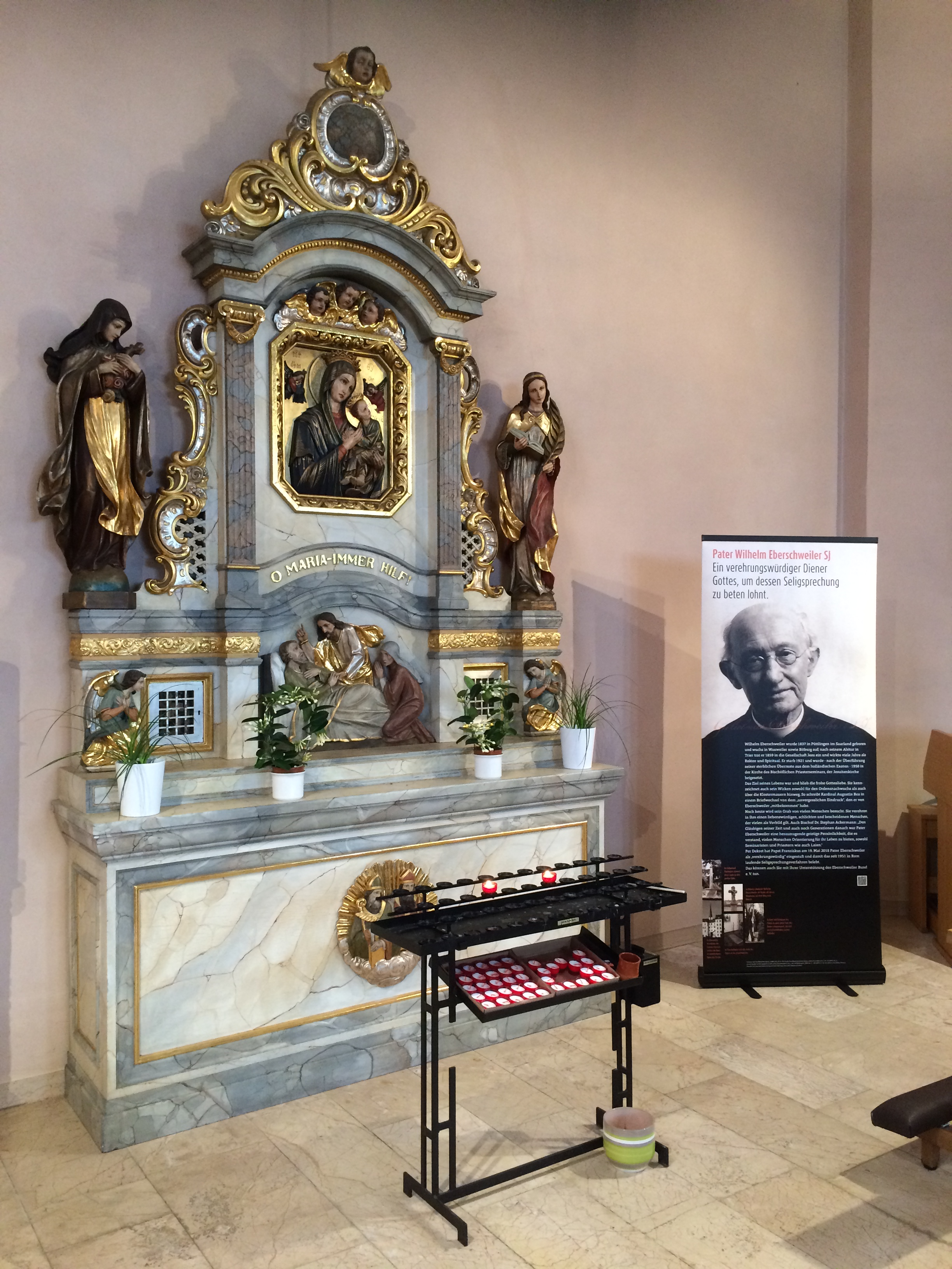 Rollup P. Wilhelm Eberschweiler in Waxweiler, Parish Church of St. John the Baptist